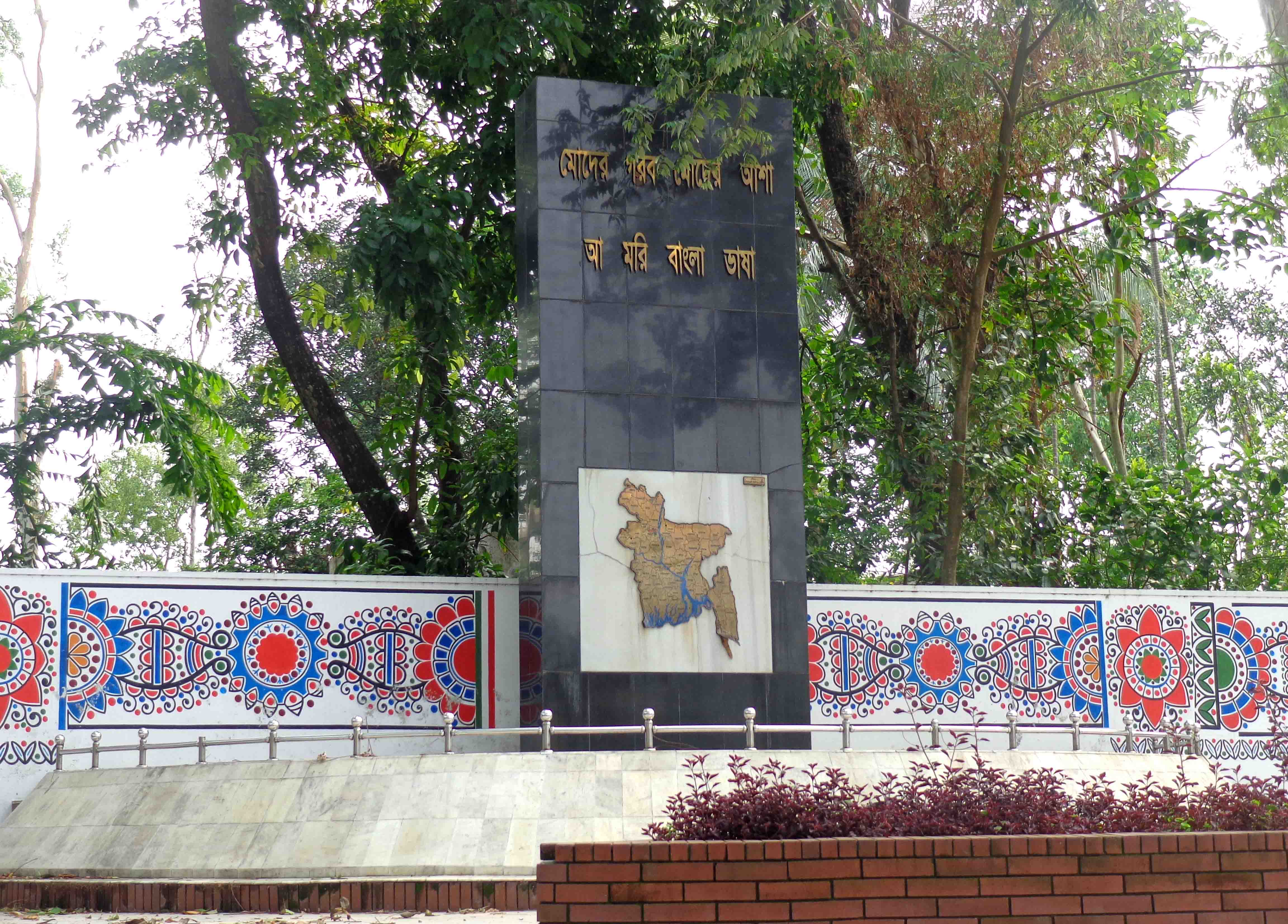 গাবতলী উপজেলা শহীদ মিনার